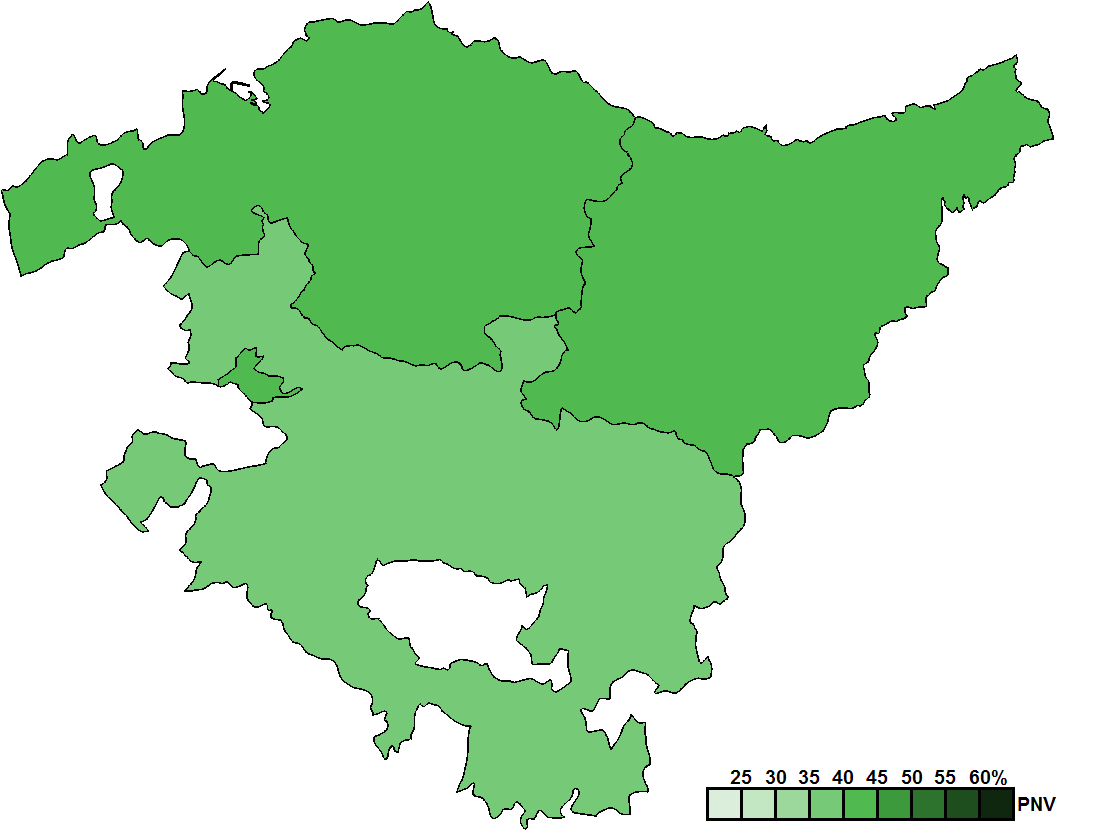 Provincial results for the 1984 Basque regional election.